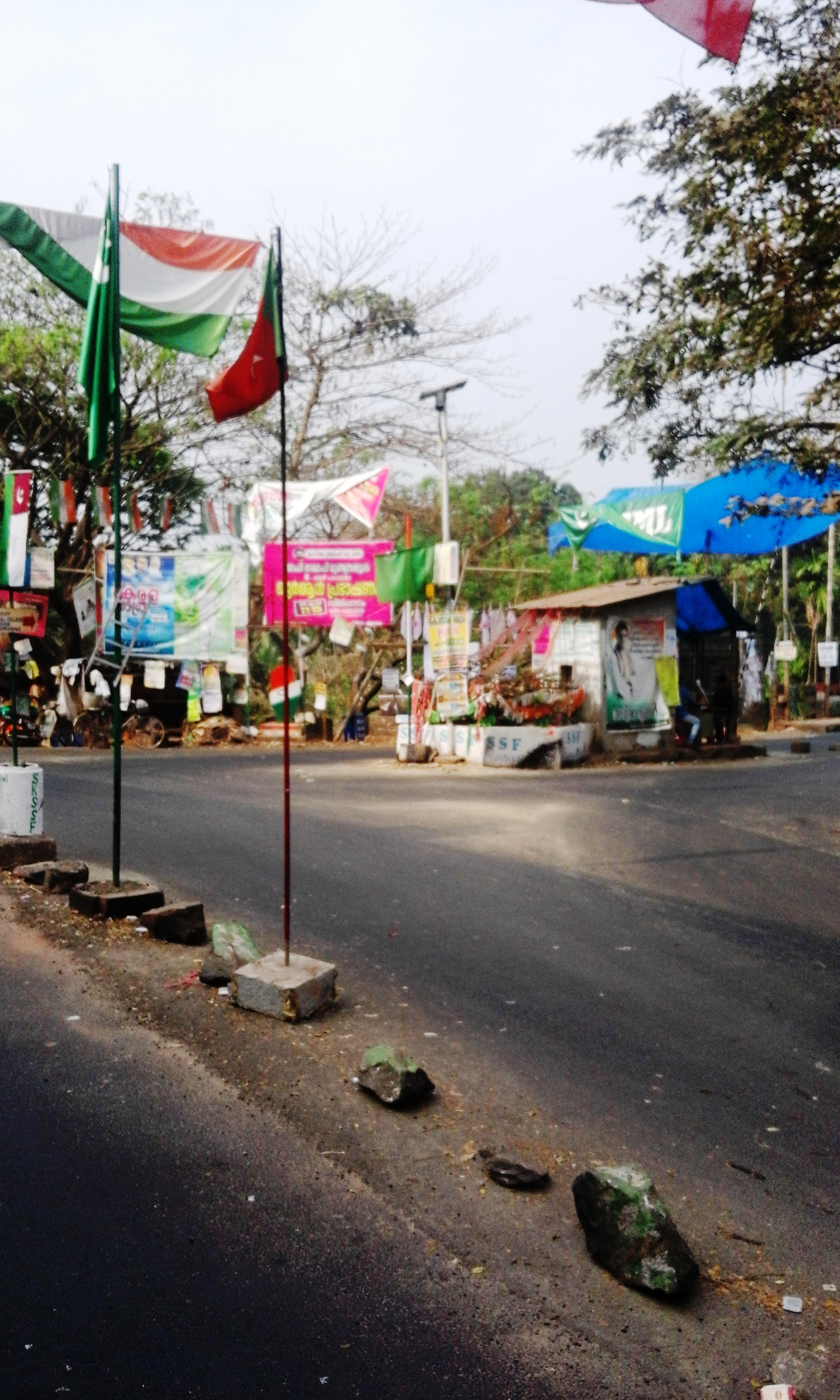 Malappuram District, Kerala province, India.